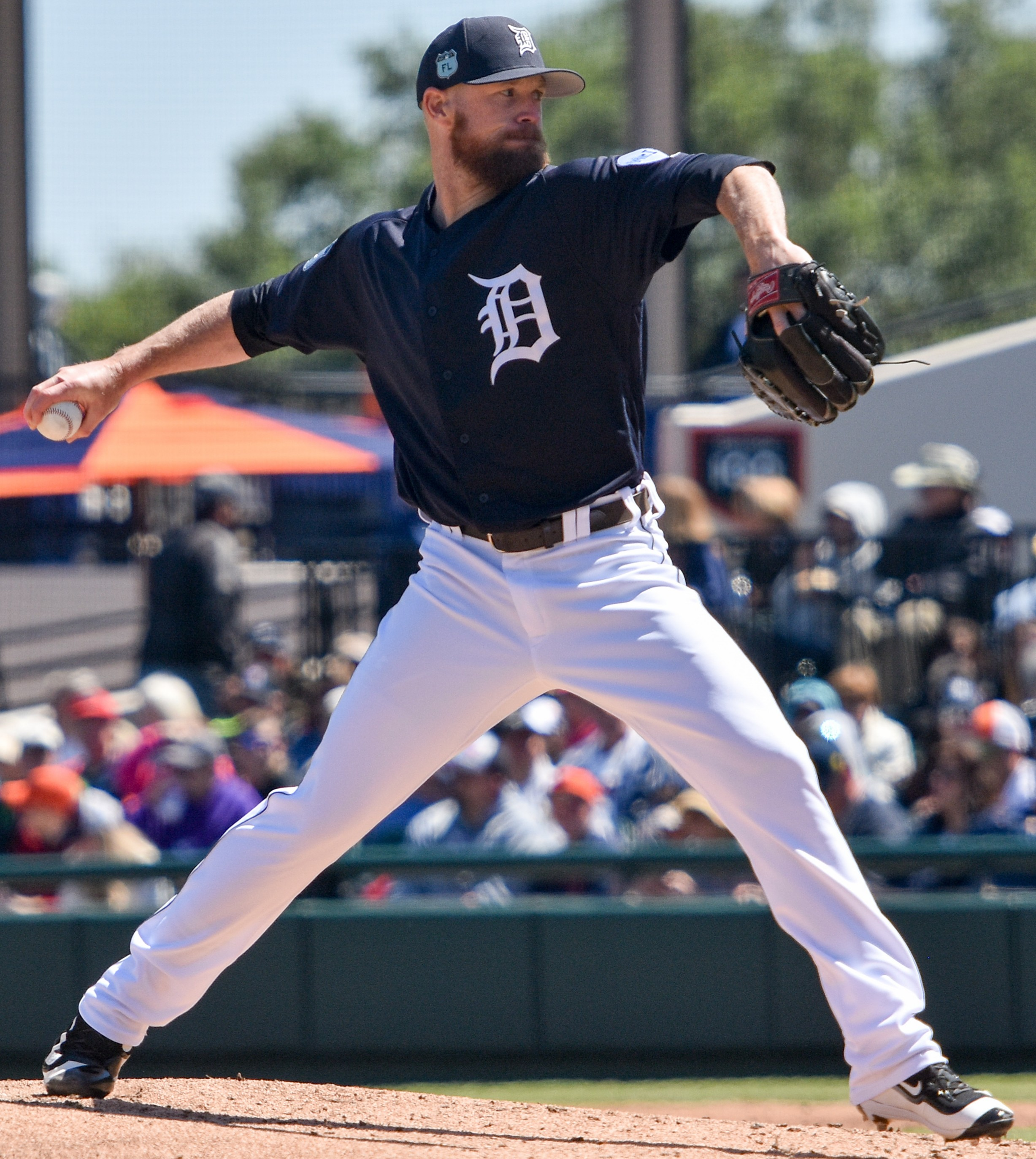 20170315_Hagerty-1053 Logan Kensing. Tigers v. Braves. Publix Field at Joker Marchant Stadium. Lakeland, Fla. March 15, 2017. Photo by Tom Hagerty.